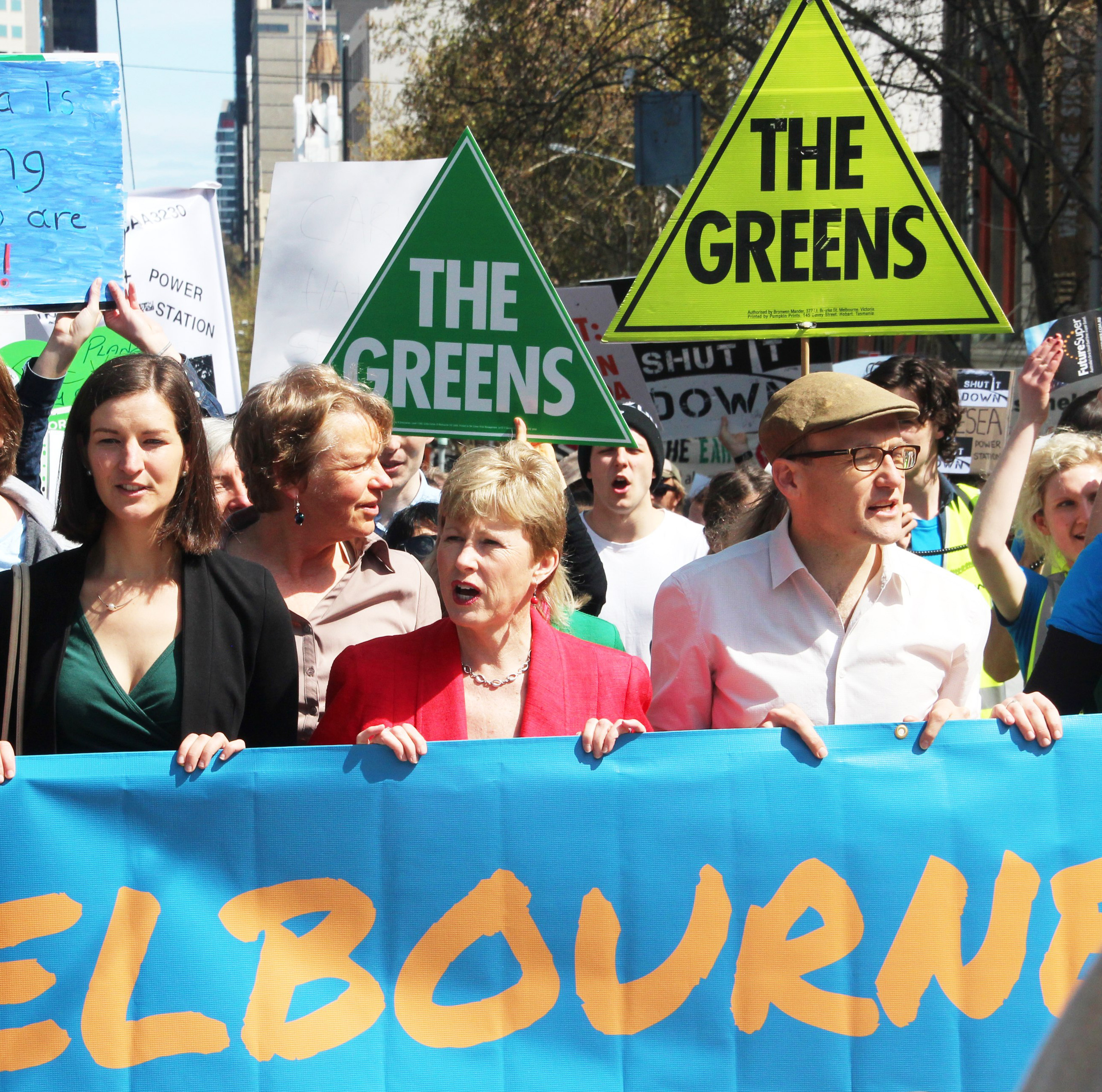 Ellen Sandell, Senator Janet Rice, Senator Christine Milne and Adam Bandt MP holding the march banner at People's Climate March in Melbourne on Sunday 21 September 2014